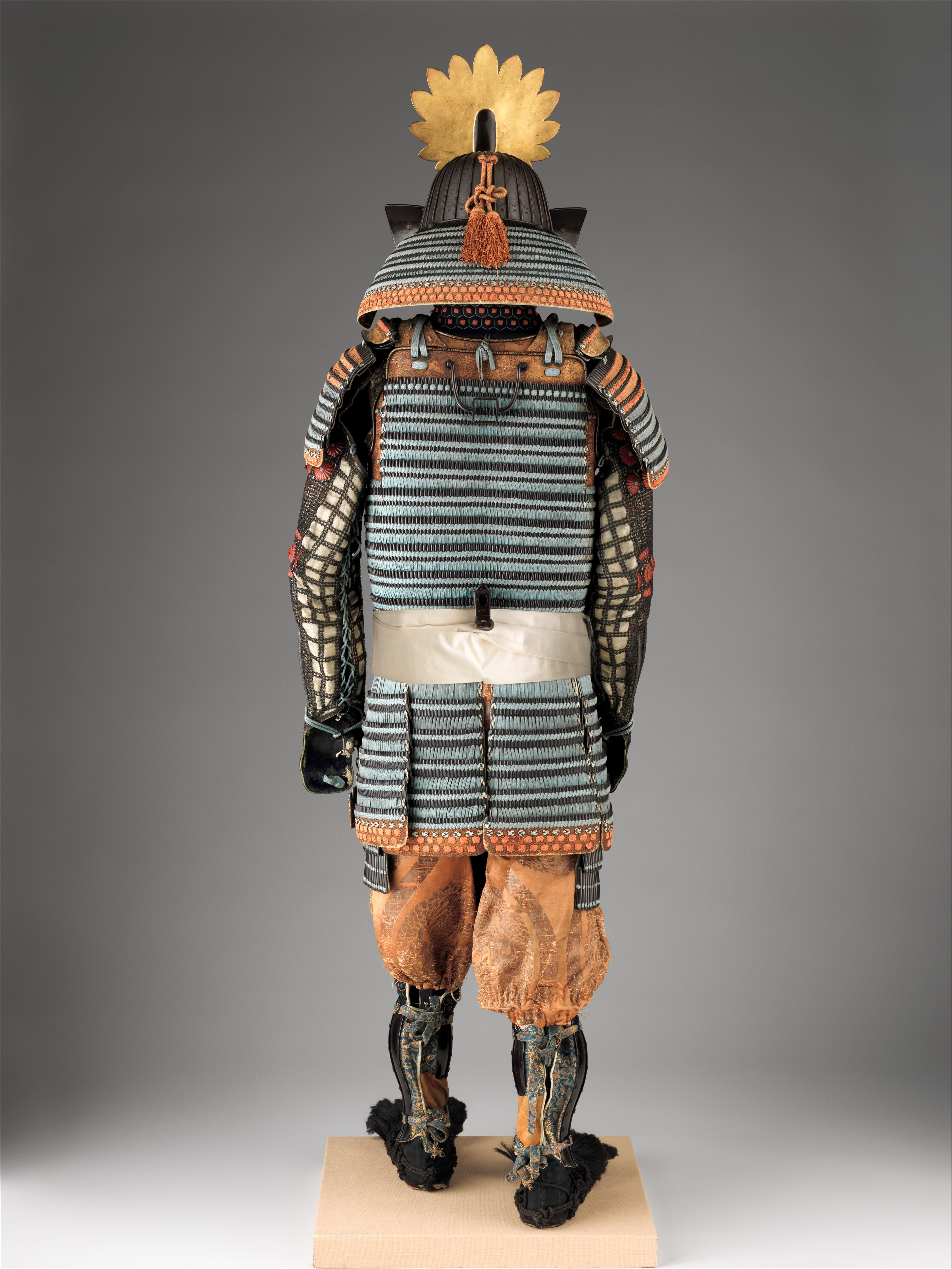 Japanese; Armor (Gusoku); Armor for Man